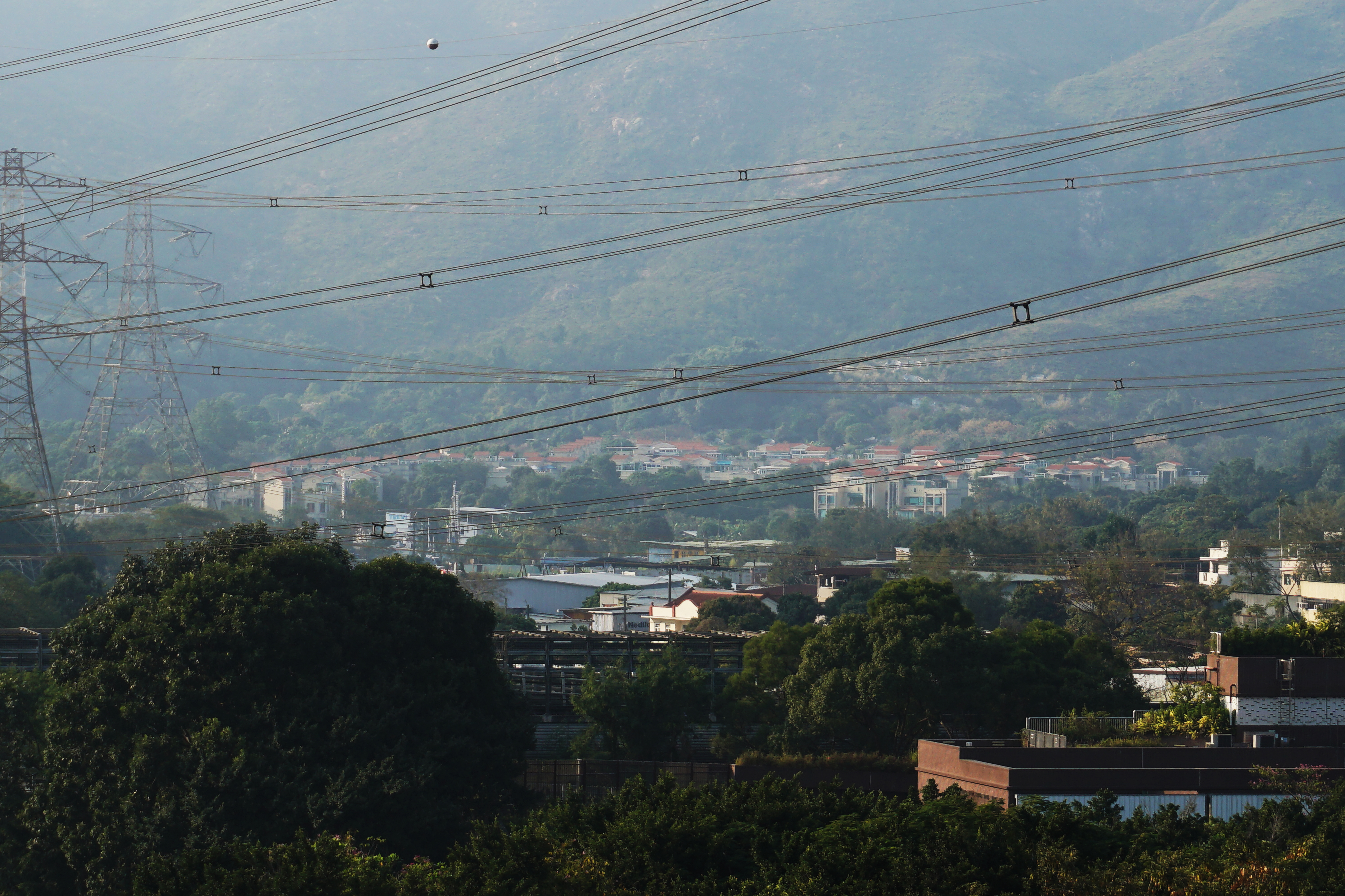 Villa Pinada in Tuen Mun, Hong Kong.